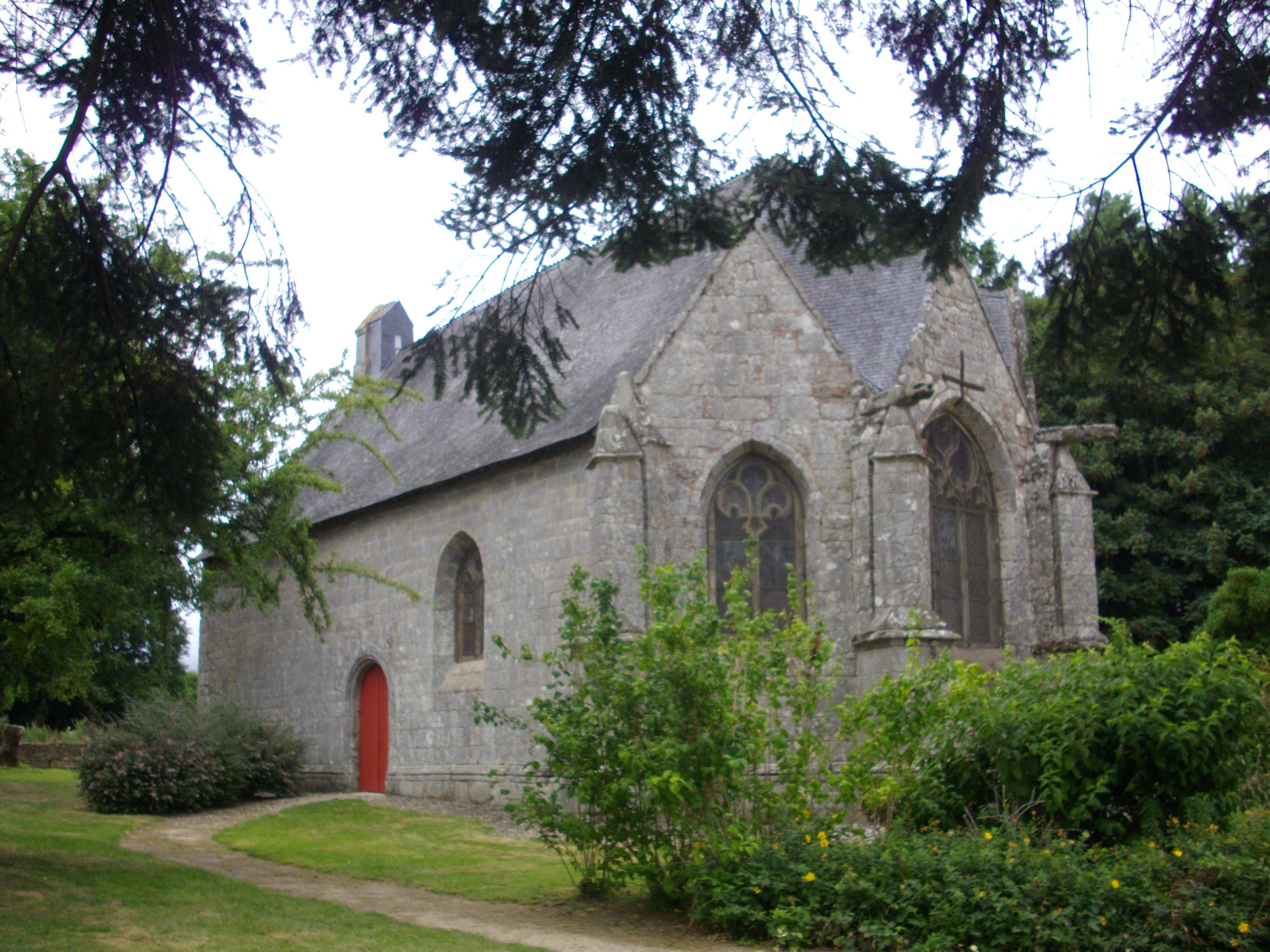 Saint Susanna chapel of Sérent (Morbihan, France) .